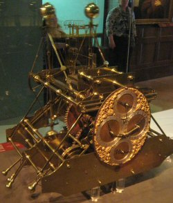 John Harrison's H1 marine chronometer. It took Harrison about five years to develop this chronometer. Its sea trial was in 1735 on HMS Centurion to Lisbon and HMS Orford returning to England. It weighs 34 kilograms (75 lb) and was originally housed in a glazed wooden case about 120 centimetres (3.9 ft) in each dimension. Instead of a pendulum, it employs a pair of rocking bars with balls on the end and constrained with helical springs. The equal and opposite movement of these bars was less susceptible to being affected by a ships movement than a pendulum would be. Harrison's grasshopper escapement connects the bars with the rest of the mechanism. Some of the cog wheels are of wood which has self-lubricating properties. Gridirons provide temperature compensation by modifying the effective length of the helical springs. For this invention Harrison received £250 (compared with the £20,000 offered for a full solution) from the Board of Longitude. Harrison called it a "timekeeper". The bar-balances like elongated dumbells do not run in conventional bearings. Instead they roll on pairs of plates set at 45° to the vertical and at 90° to each other. These plates, which only move through very short distances are on the ends of long arms pivoted near the bottom of the instrument. The counterweights to these arms are the brass knobs looking like control knobs at the very bottom. This and other devices mean that the clock requires no lubrication. Harrison Jonathan Betts National Maritime Museum, Greenwich, 2007 Ref: The Illustrated Longitude, Dava Sobel and William J. H. Andrews, Fourth Estate, London, 1998. Better images: pixgood and my-time-machines. Shot without flash, 800 ASA setting.